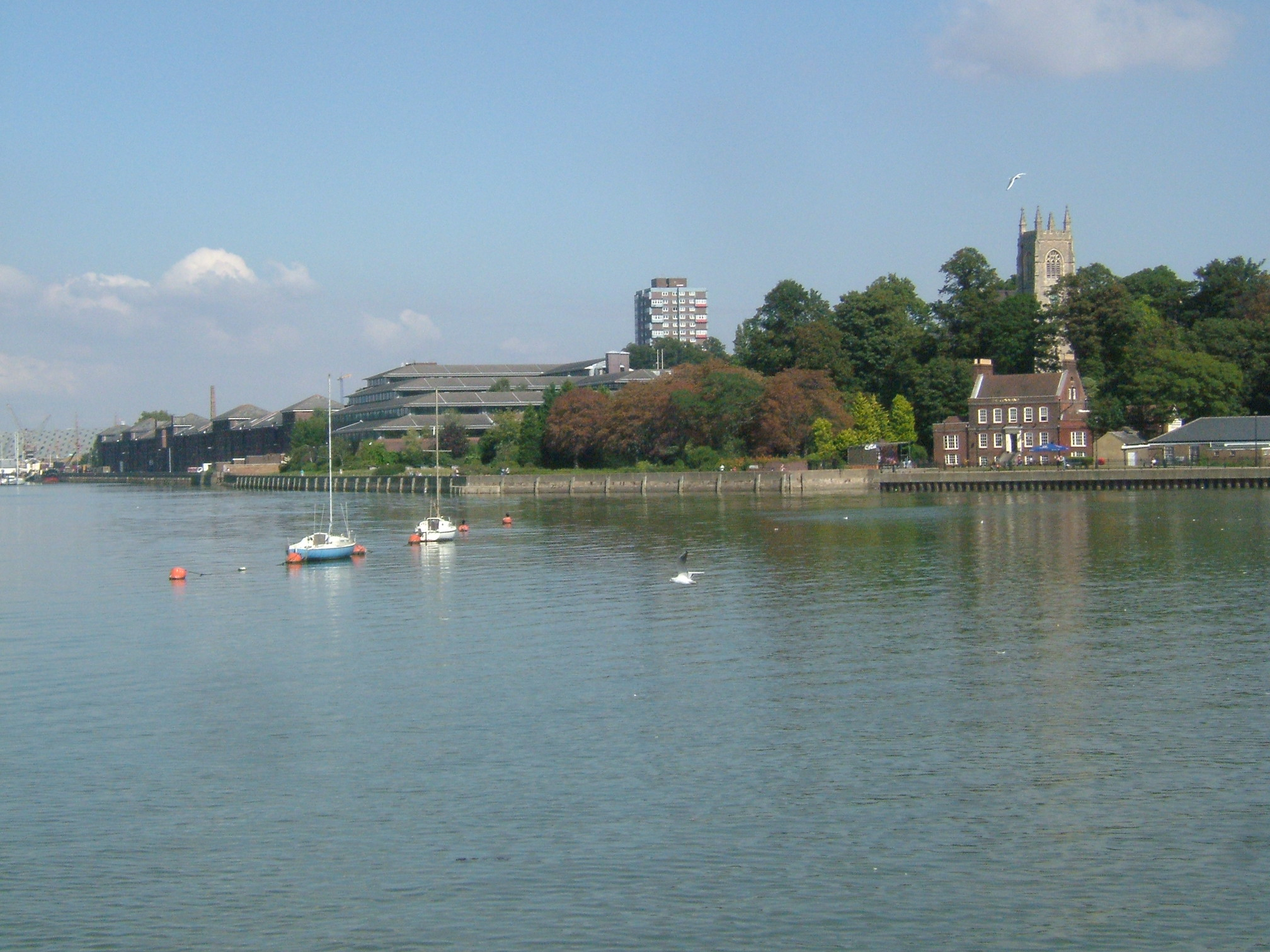 Chatham lies on the outside arc of the tidal River Medway. Upstream is Rochester and downstream is Chatham Dockyard. Looking downstream, we see the coverslips, Anchor Wharf storehouses, then Gun Wharf with Lloyds Building- HQ of Medway Council, the high rise flats at Melville Court, the Command House pub, with St Mary's Church above. Random Seagulls. - Google Maps - Google Earth